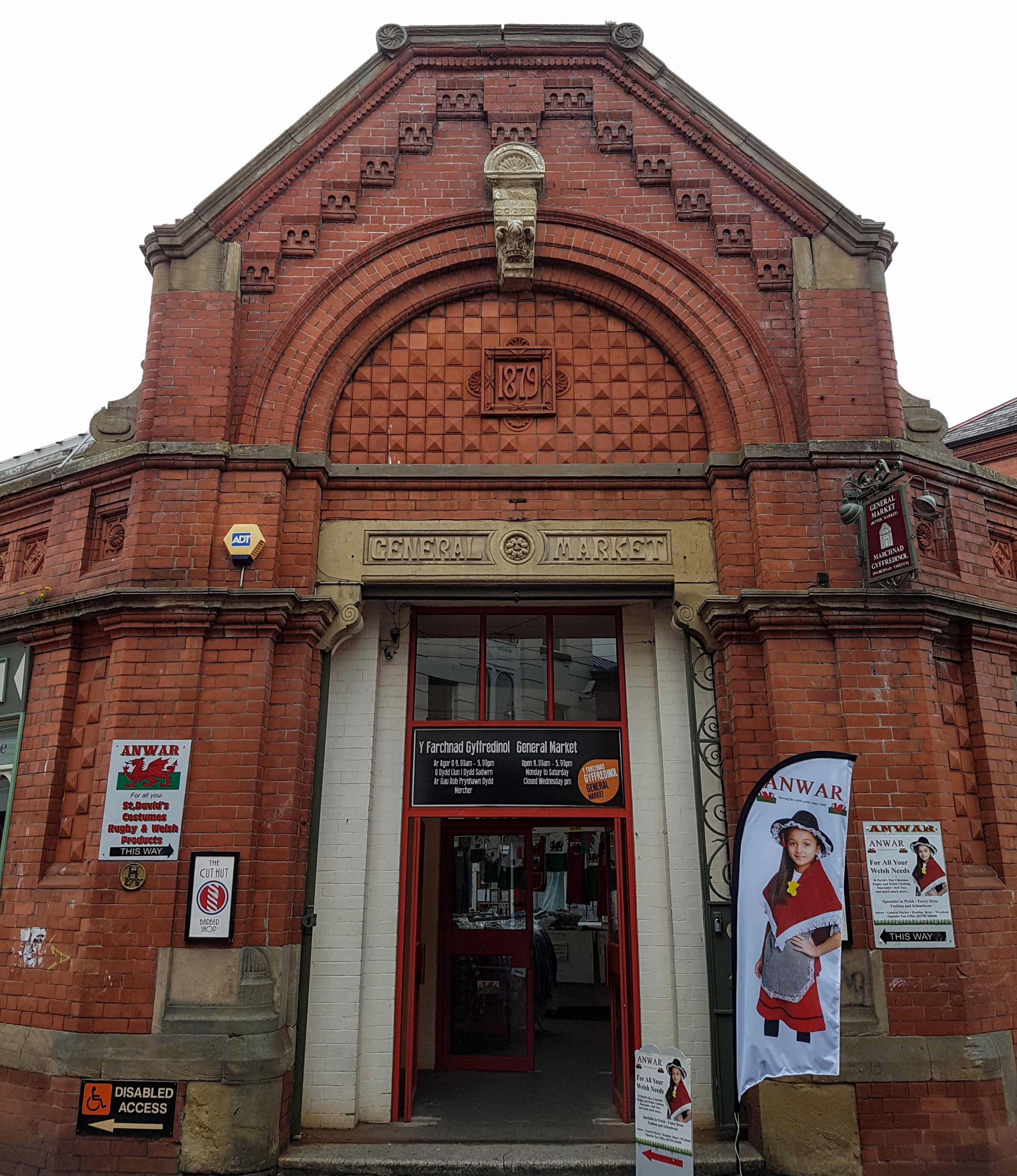 Wrexham General Market 2017